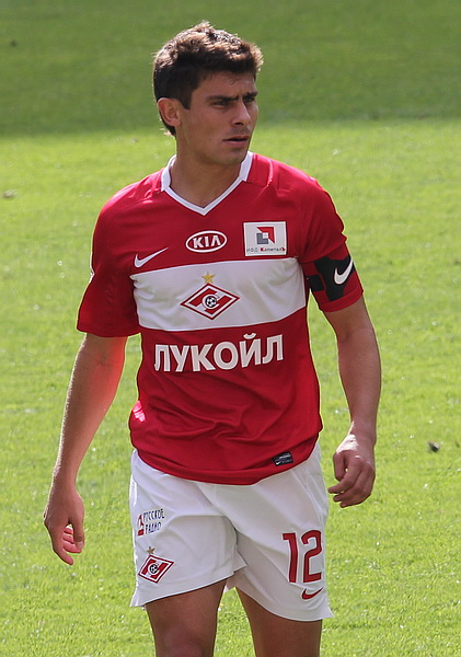 Alex Raphael Meschini